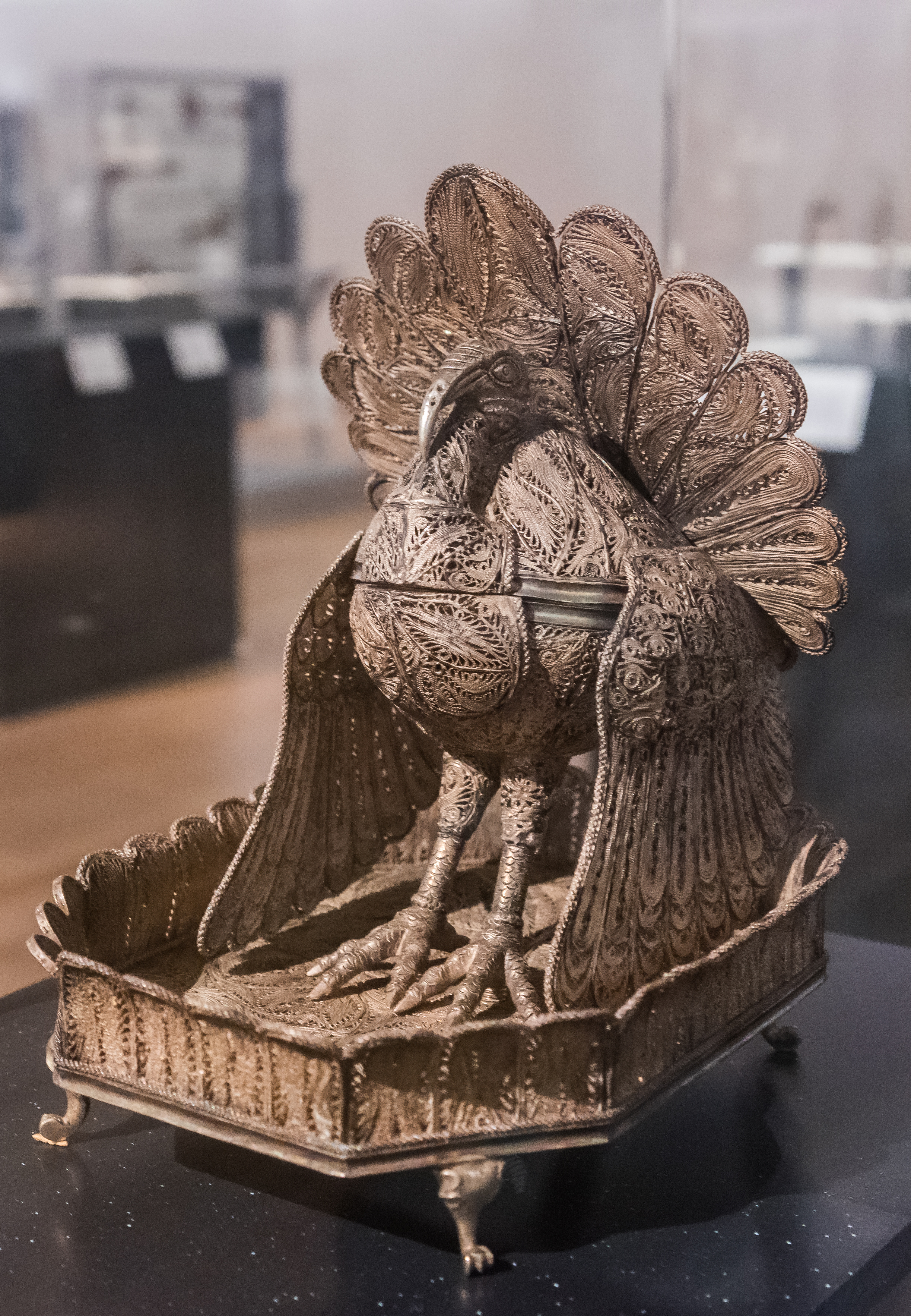 Sahumador para habitación, Museo Soumaya, Ciudad de México, México